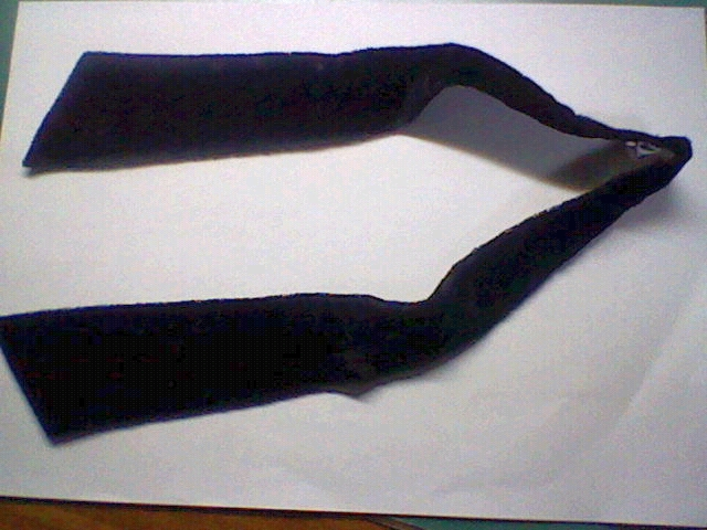 Cross red snapper is one kind of ties